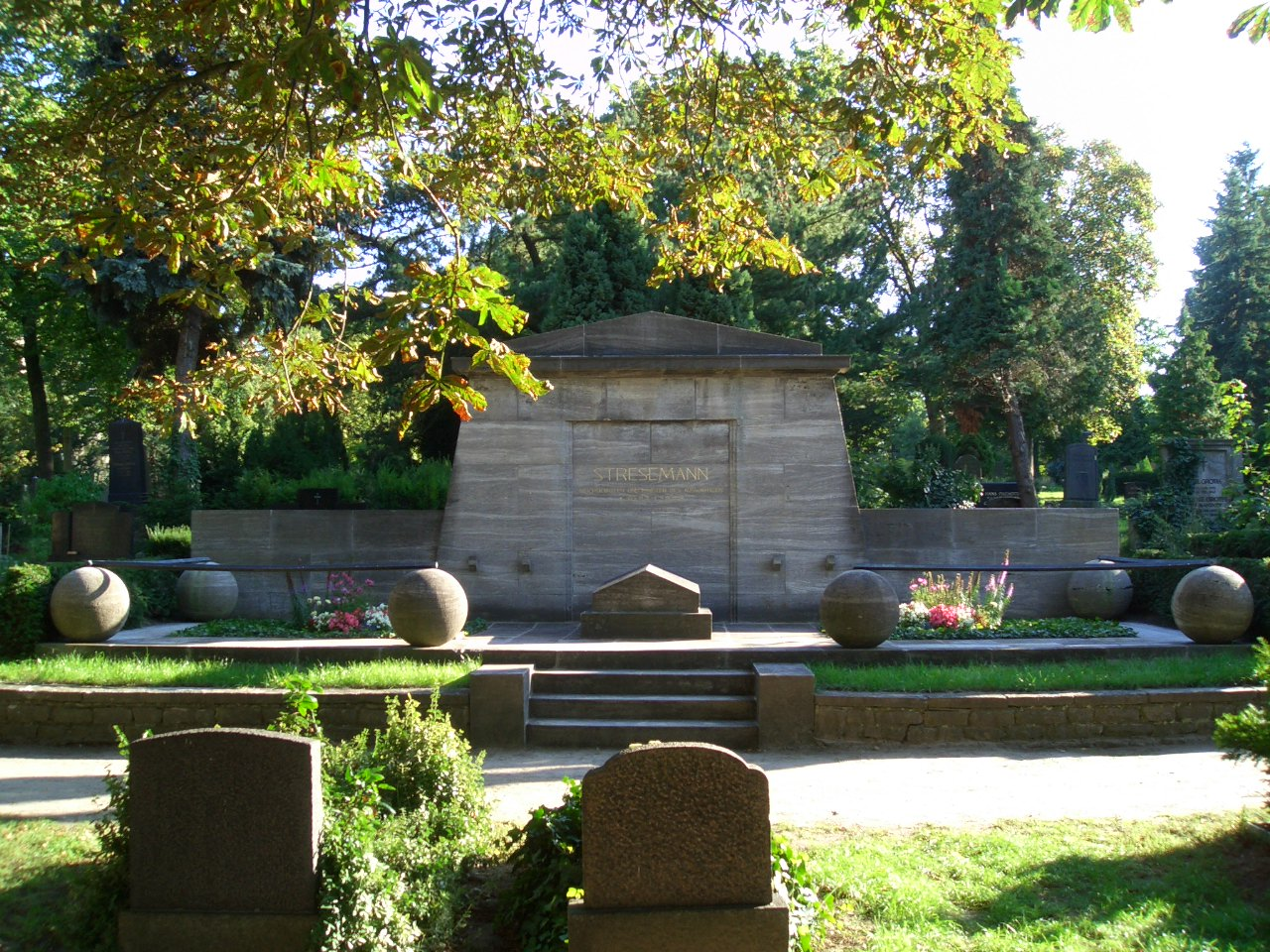 grave of former Reichskanzler Gustav Stresemann at Luisenstädtischer Friedhof in Berlin. Sculptor: Hugo Lederer